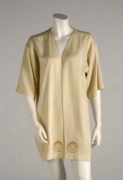 Hand-painted ivory polyester satin blouse.